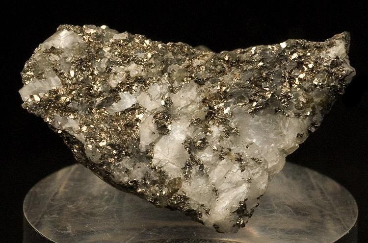 Tetradymite Locality: Oraviţa (Oravicza), Oraviţa-Ciclova Cu-Mo-(W) ore field, Banat Mts, Caras-Severin County, Romania (Locality at ) Size: 2.5 x 1.4 x 1.3 cm. Tetradymite is uncommon bismuth, tellurium sulfosalt and this fine specimen is richly covered with bright, tin-white microcrystals in a quartz matrix. This is classic, old-time material from the historic Oravita District of Romania. Accompanied by an expertly handwritten, faded label from an older collection. The collection this came out of was a museum stash dating to prior to World War I.